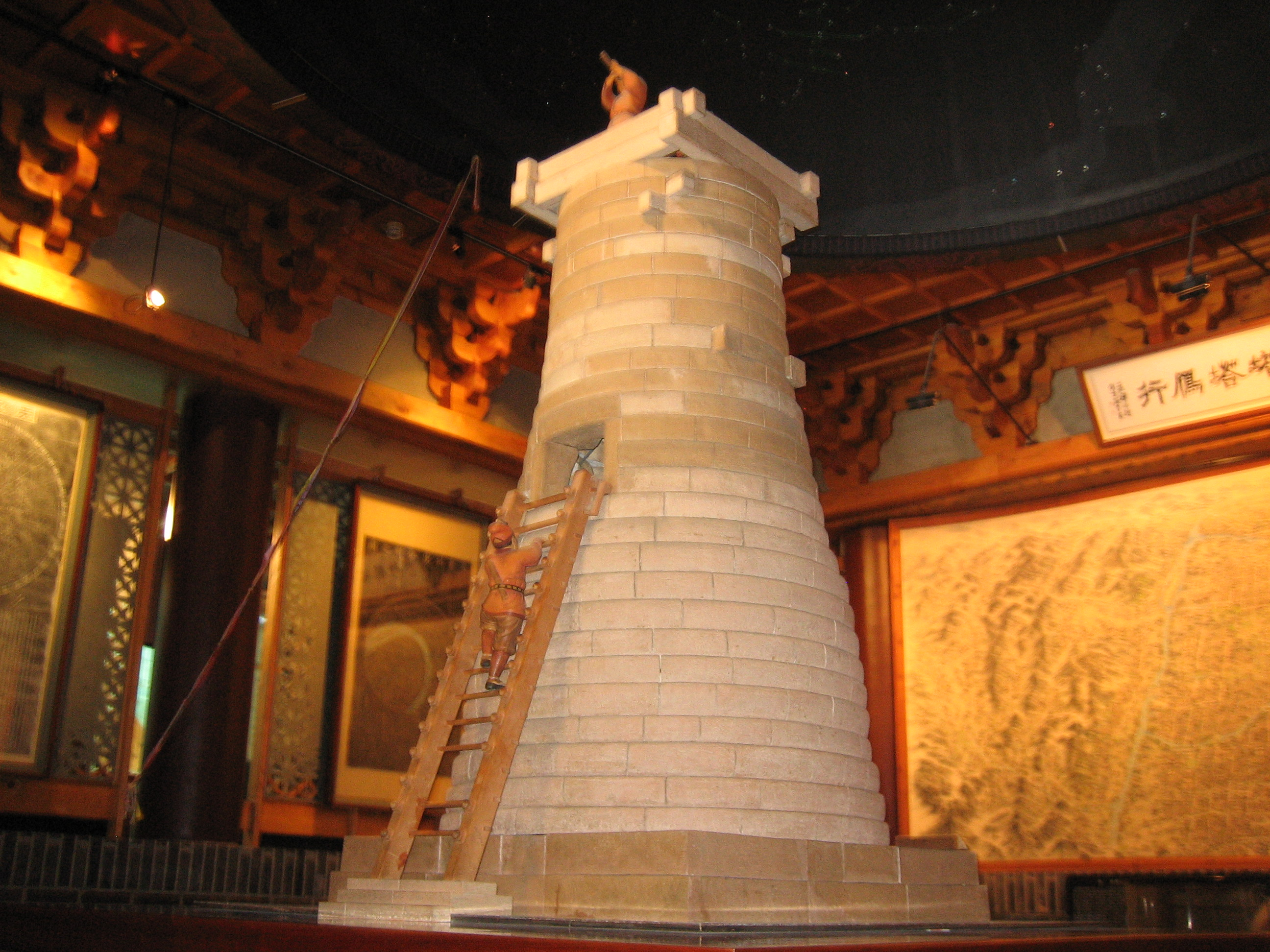 A view of Gyeongju, North Gyeongsang province, South Korea